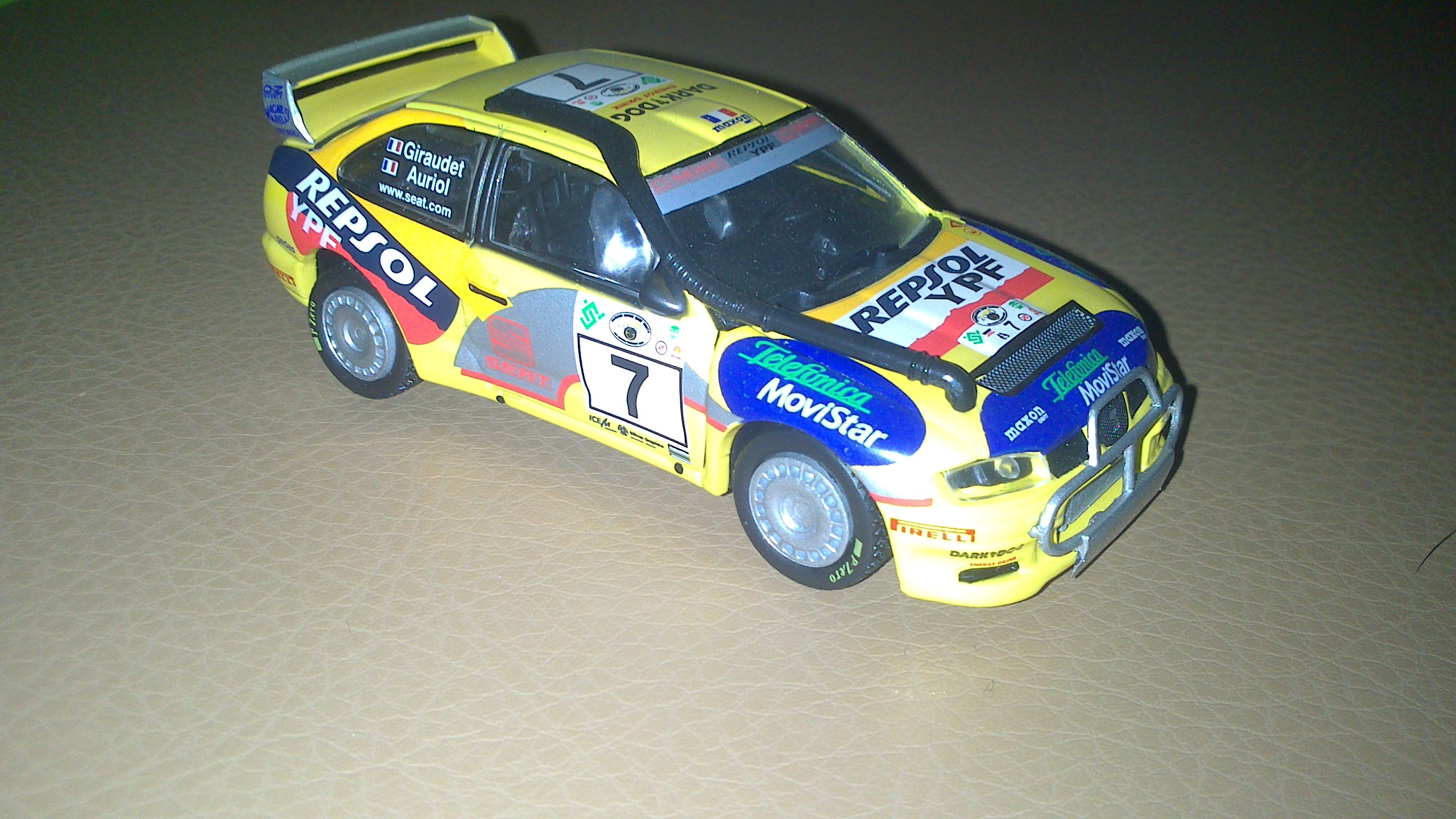 SEAT Córdoba WRC Evo2 model - Auriol/Giraudet, Rally Safari 2000